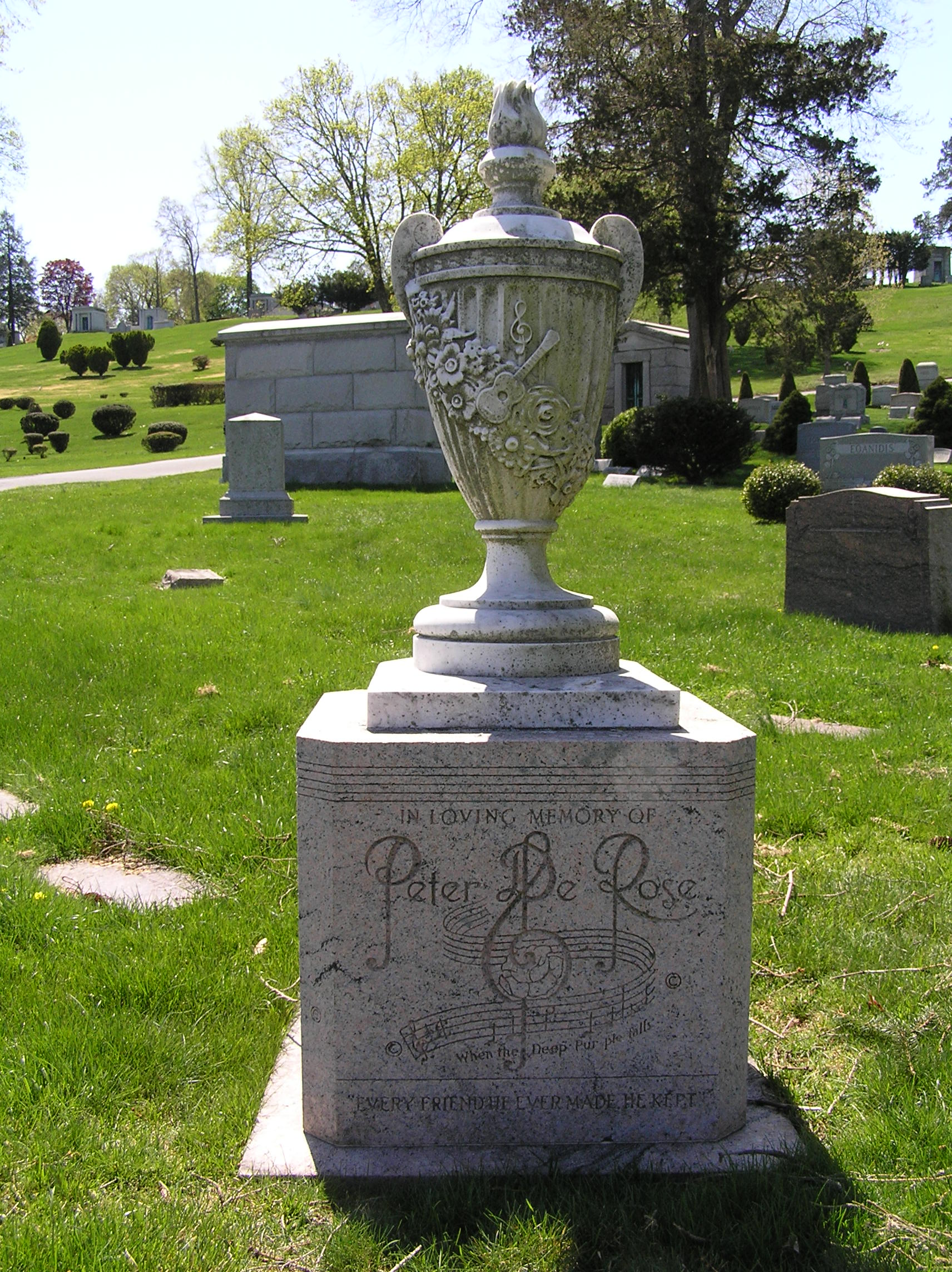 The monument of Peter De Rose in Kensico Cemetery